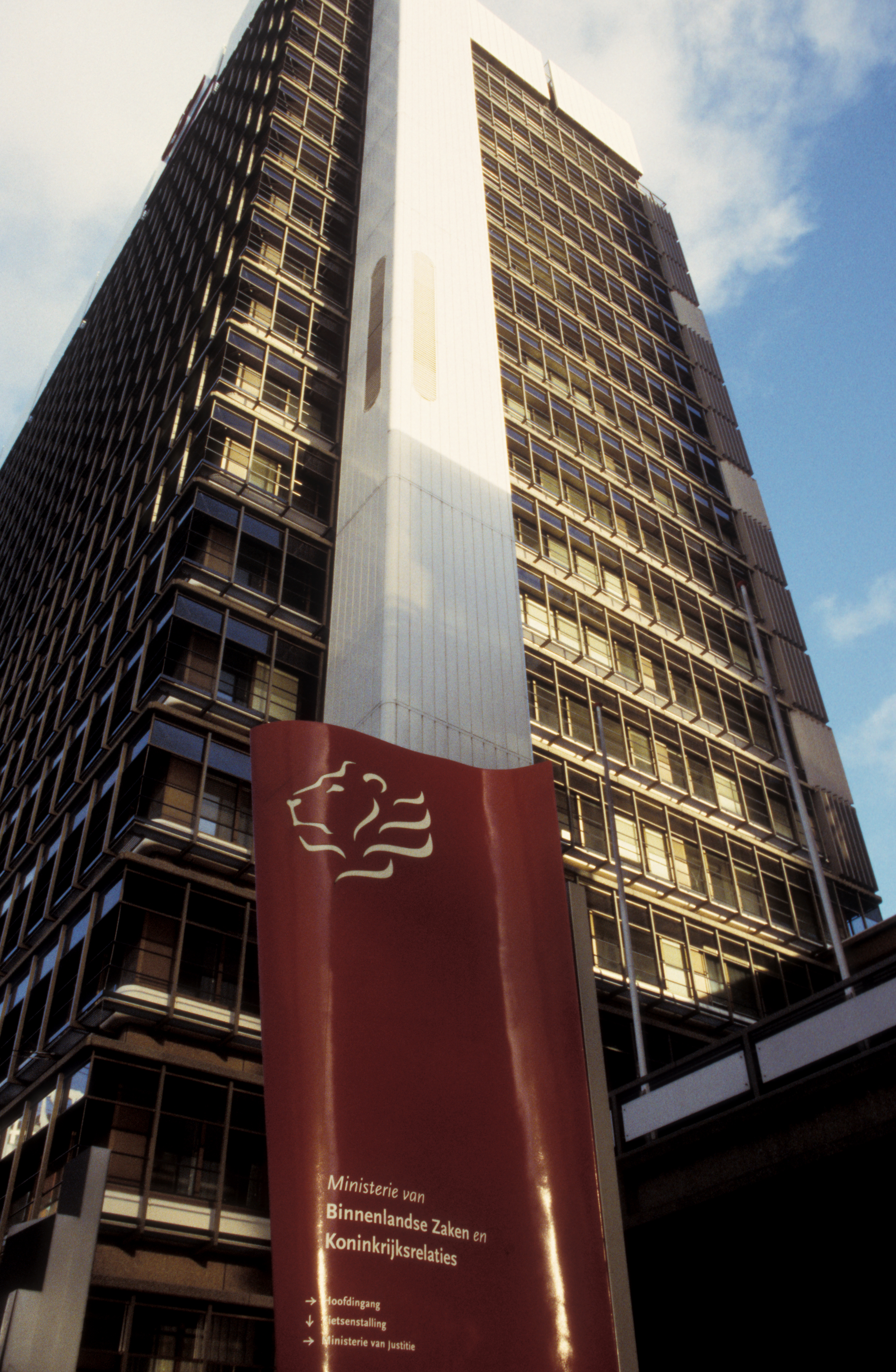 Ministery of Internal Affairs, The Hague, Netherlands